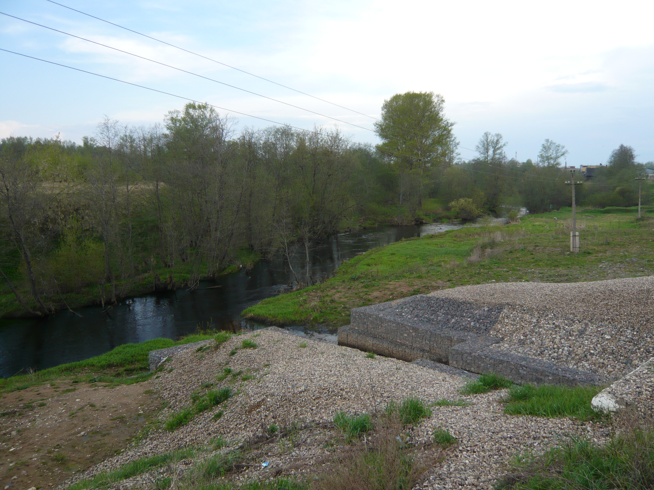 Osuga river in Kuvshinovo town 9 May 2010 year